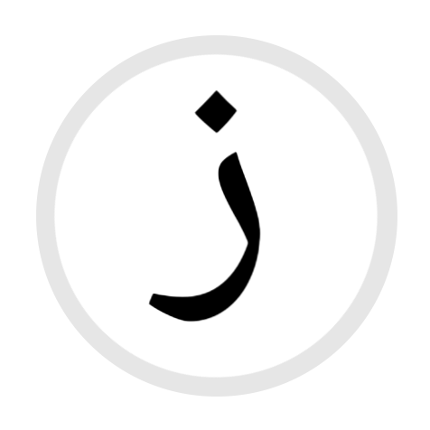 HS Letter (arabic alphabet)